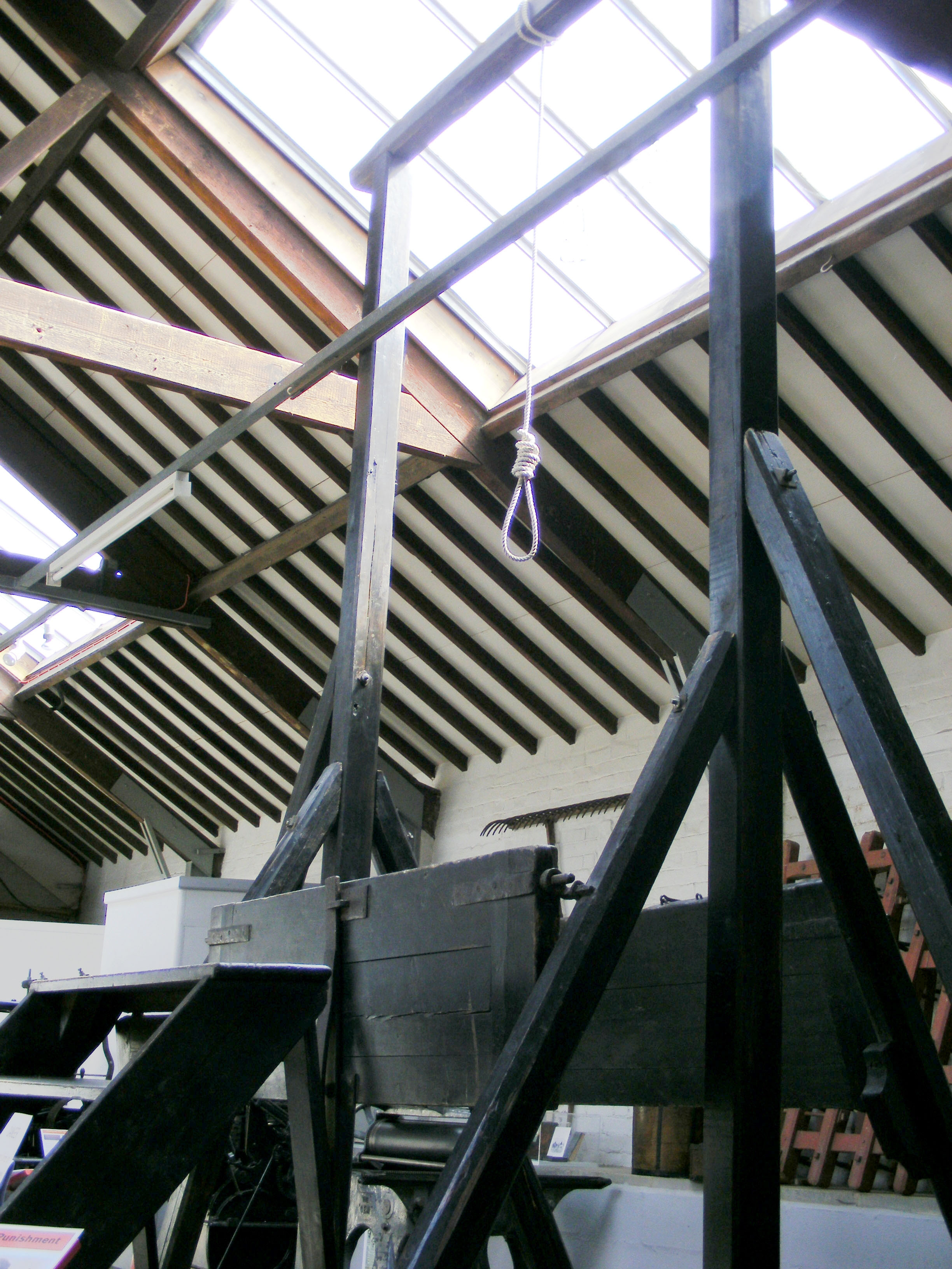 A view of the Gallows in Rutland County Museums Poultry Hall